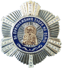 Order of Saint Nicolas International order